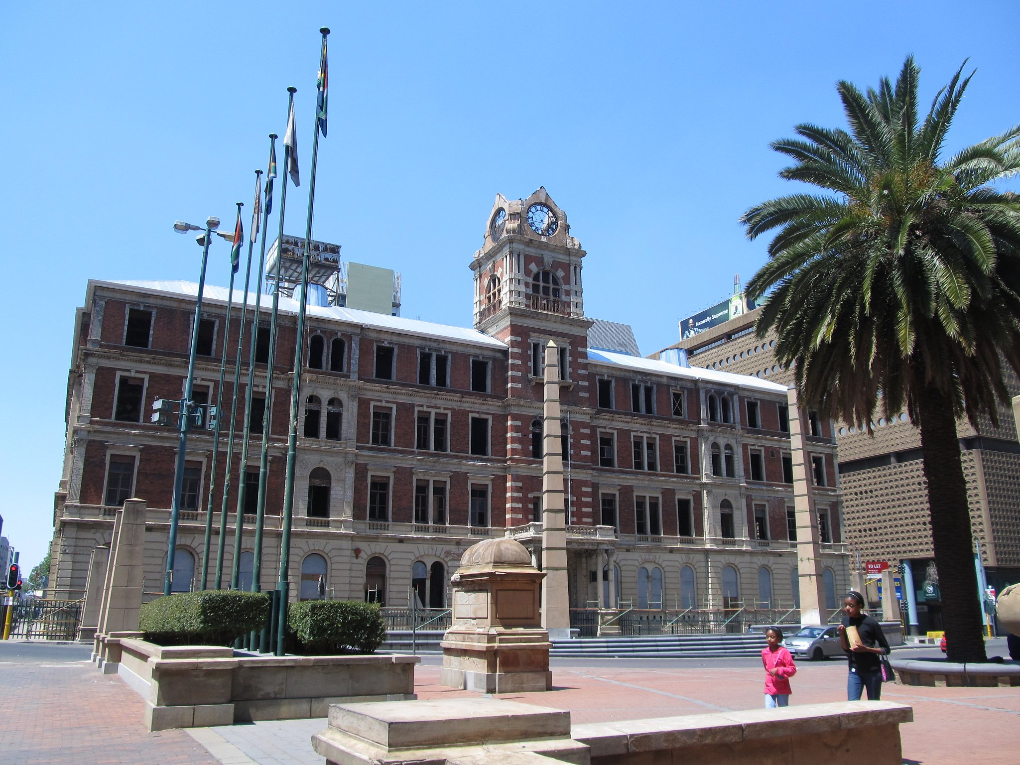 The derelict Rissik Street Post Office. This media shows a South African Protected Site with SAHRA file reference 9/2/228/0067.